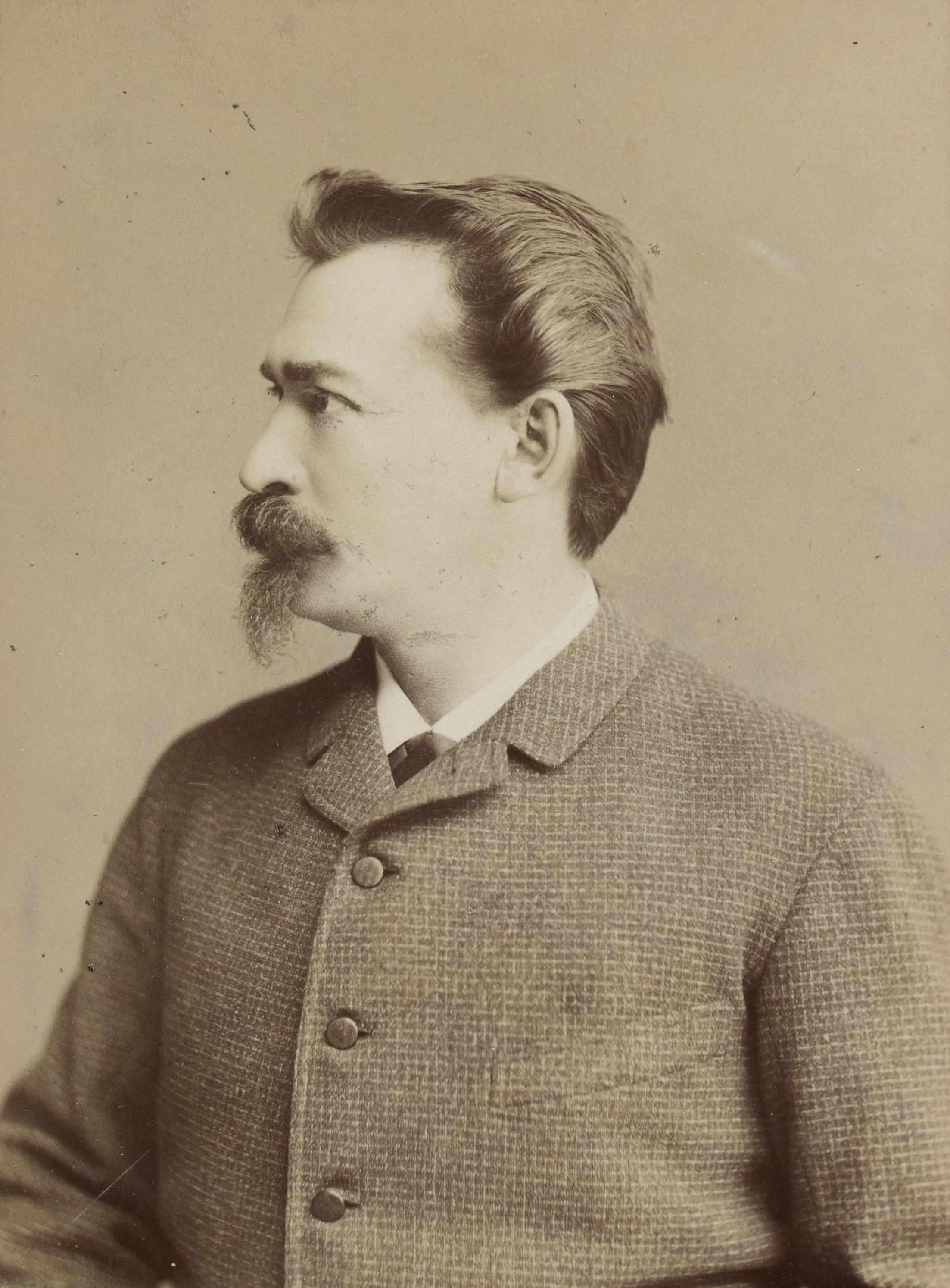 Emile Holub